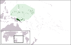 Locator map for the German New-Guinea